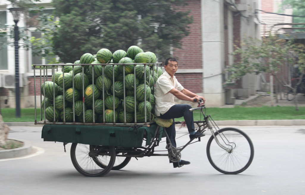 Watermelon delivery running by main street of Jiaotong Daxue campus